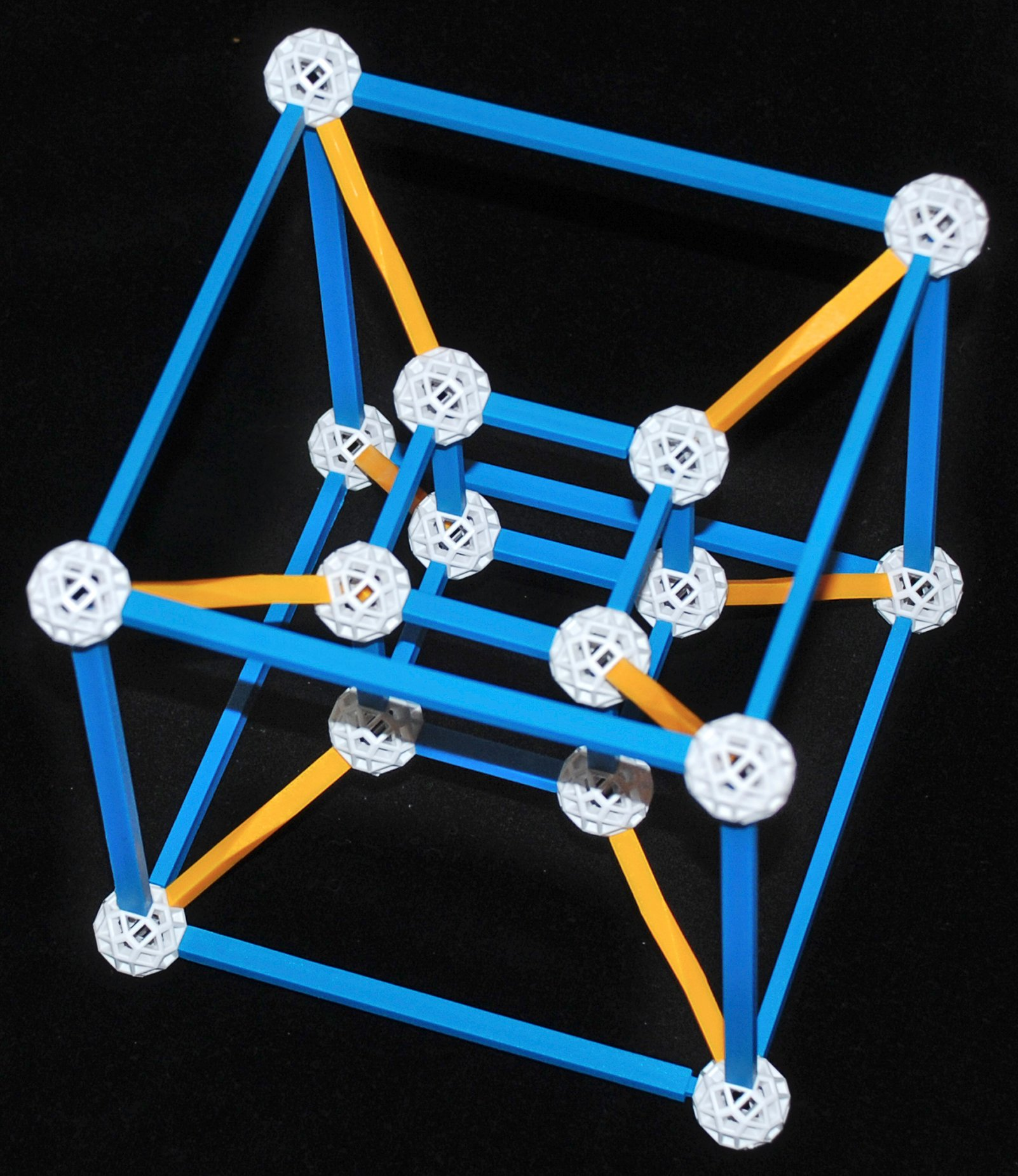 ZOMETOOl